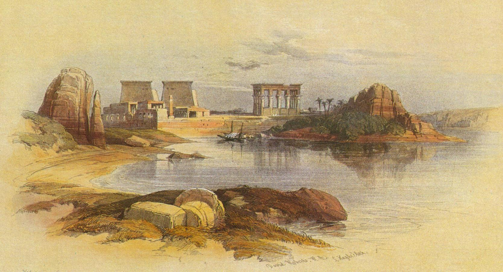 Part of the ruins of a temple on the Island of Bigge, Nubia